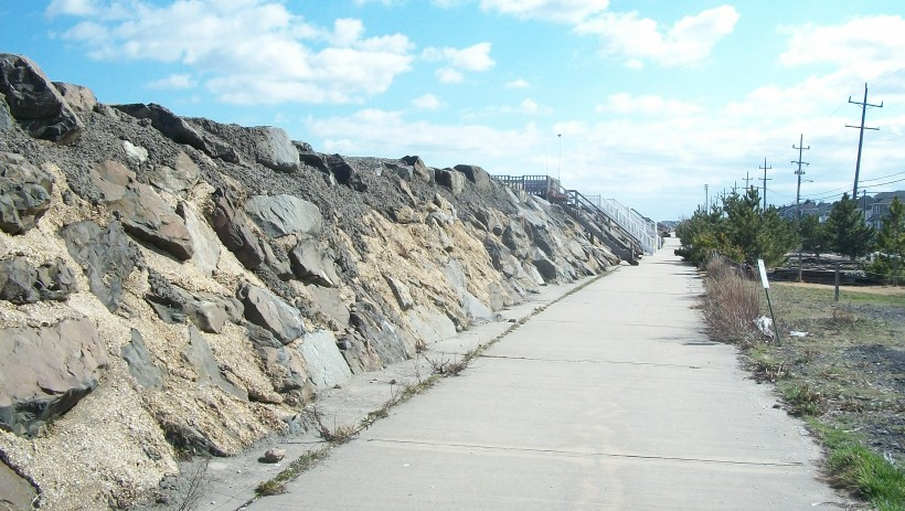 A 1.5 story high seawall prevents storm surges from the Atlantic Ocean (left, not shown) from washing over houses and stores in Sea Bright, New Jersey. Looking southwest; Route 36 (far right, not shown) is a two lane road running through the shopping district.